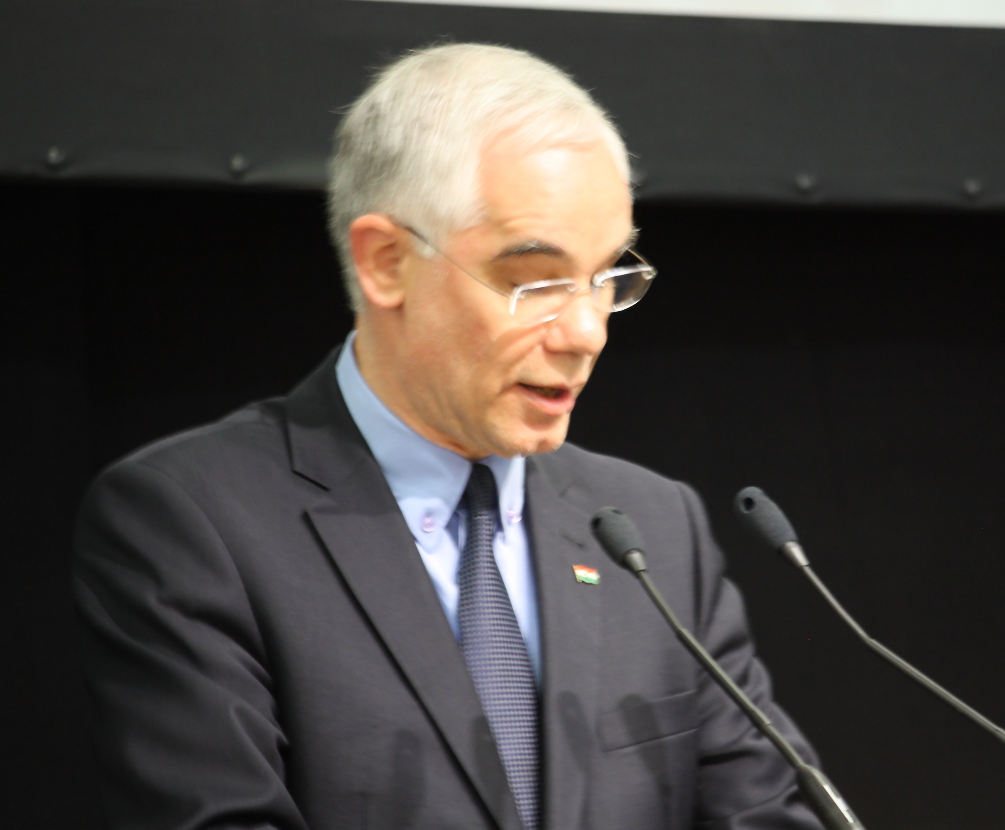 Hungarian Zoltán Balog, Minister of National Resources, at Helsinki Book Fair 2012